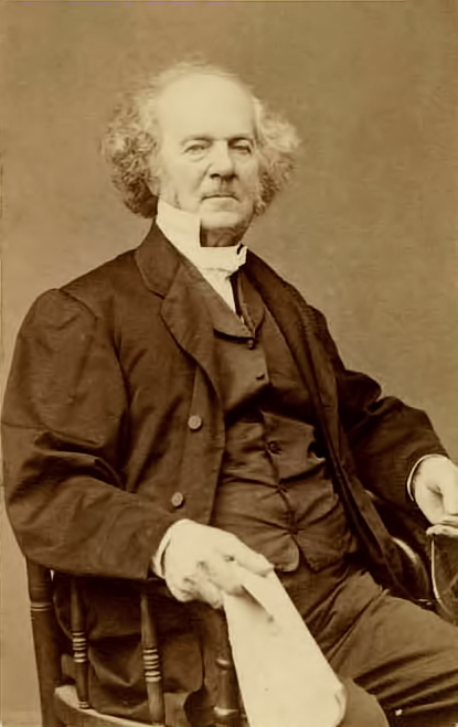 This portrait depicts Lewis Tappan, (1788-1873).